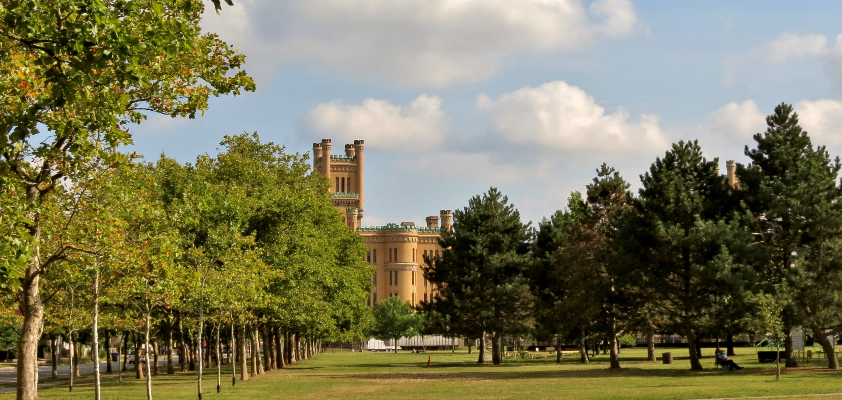 Antique military armory at Providence RI